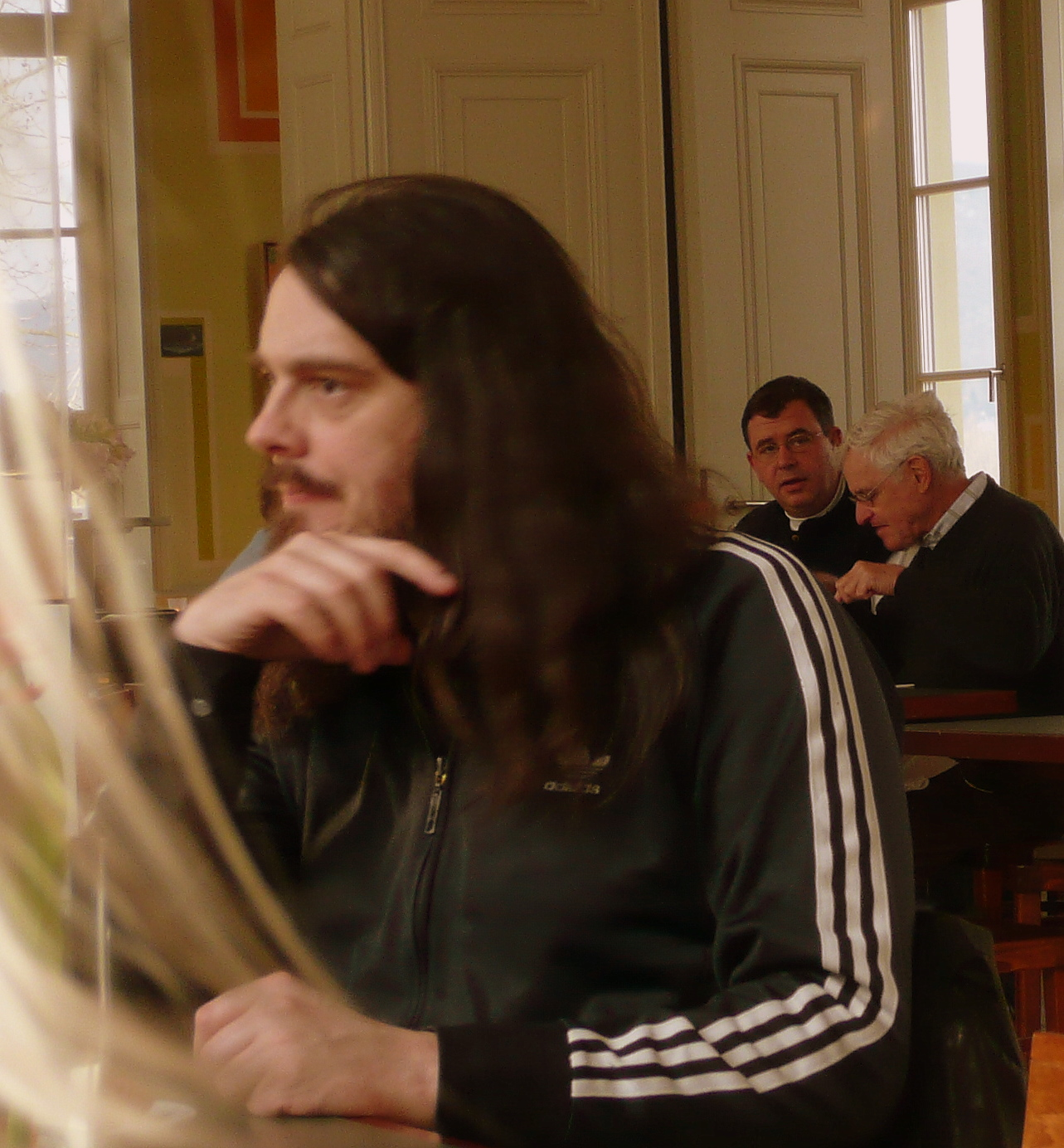 Jonathan Meese